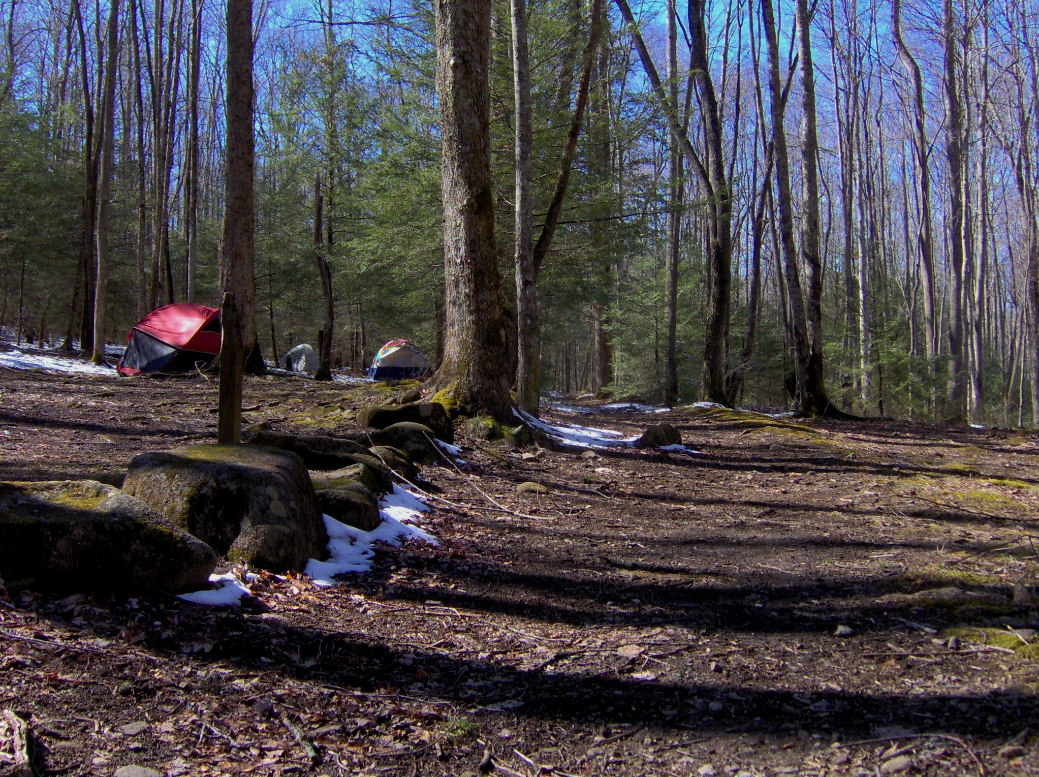 The Meigs Mountain Trail at Backcountry Campsite 20 (sometimes called King's Branch Campsite) in the Great Smoky Mountains of East Tennessee, in the southeastern United States. The campsite is situated on the broad northern slopes of Blanket Mountain. Several tents can be seen on the left.